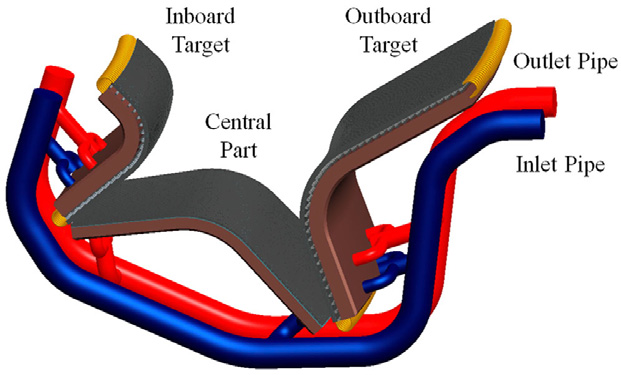 Divertor of K-DEMO, a possible future Korean tokamak fusion demonstration reactor. A conceptual design study for K-DEMO was initiated in 2012 targeting the construction by 2037.